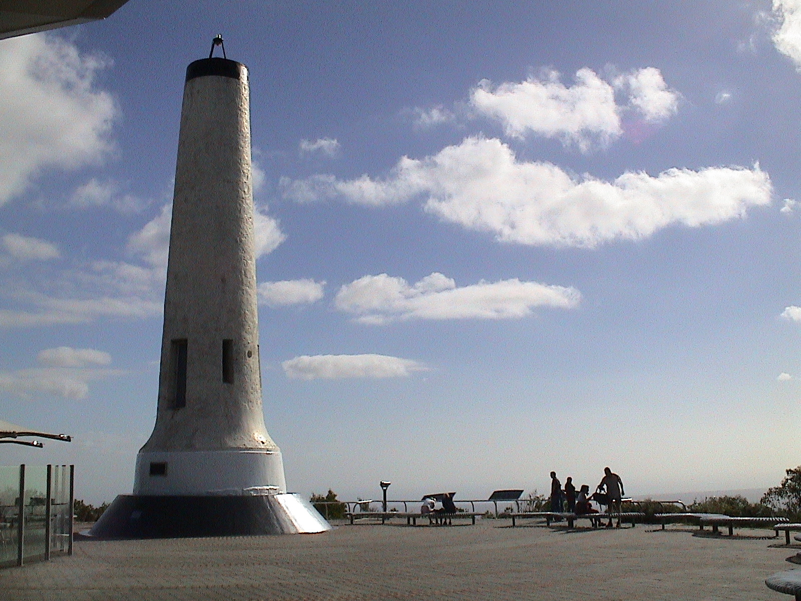 Flinders Column at Mount Lofty summit, with viewing platform Original filename = DSC02369.JPG